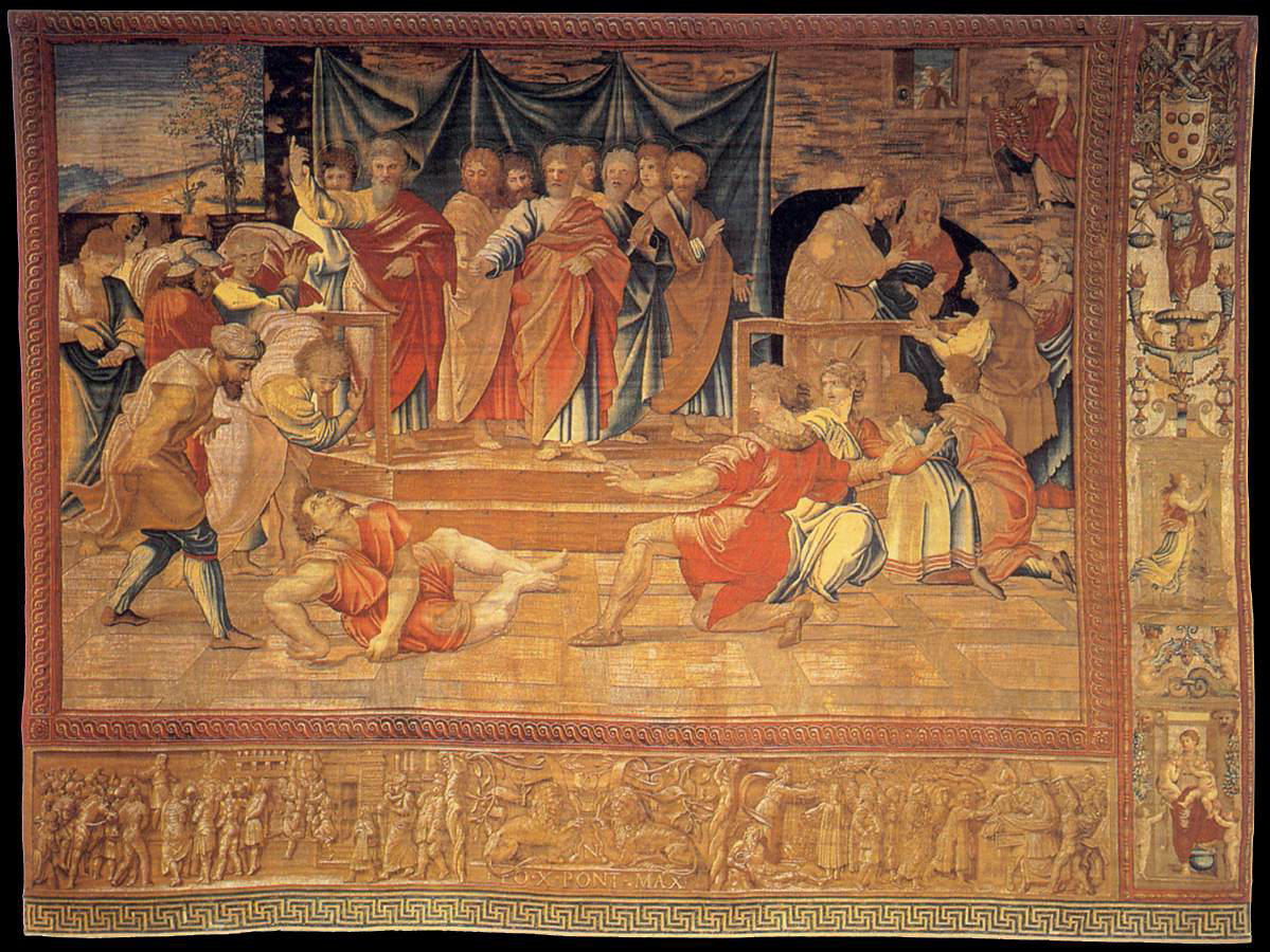 Death of Ananias Tapestry Musei Vaticani, Rome